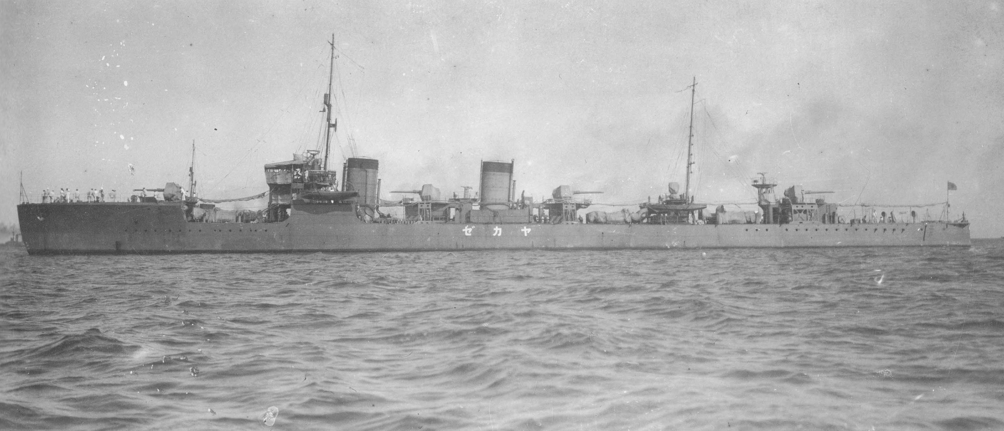 Imperial Japanese Navy destroyer Yakaze.